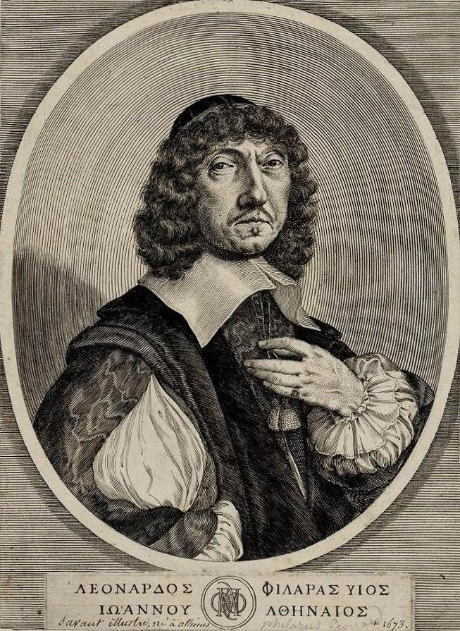 LEONARD PHILARAS (Λεονάρδος Φιλάρας, Leonardos Philaras) also known as VILLERET (c. 1595-1673) Greek scholar, Politician and Advisor to the French court.